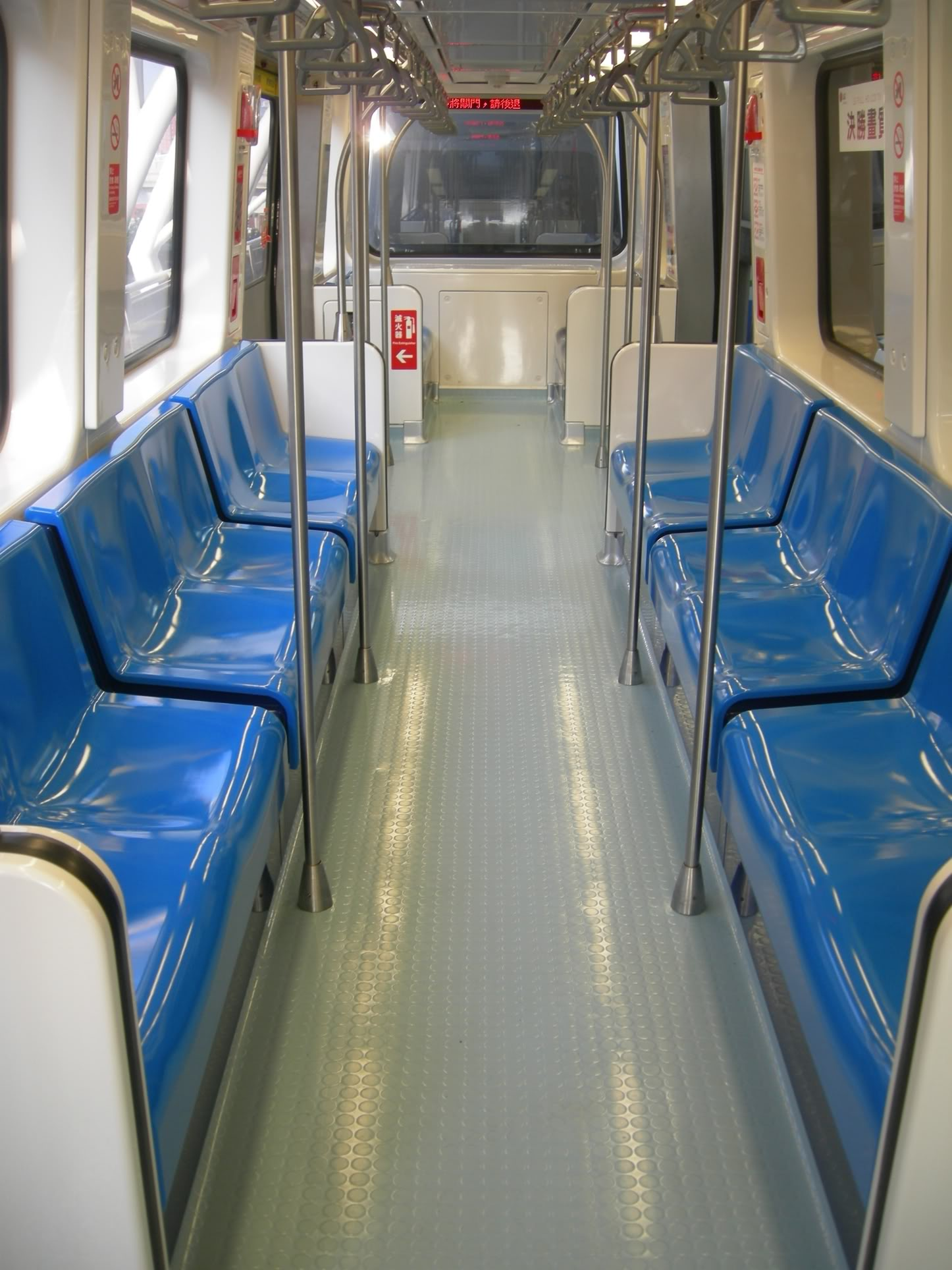 Interior of the CITYFLO650 train